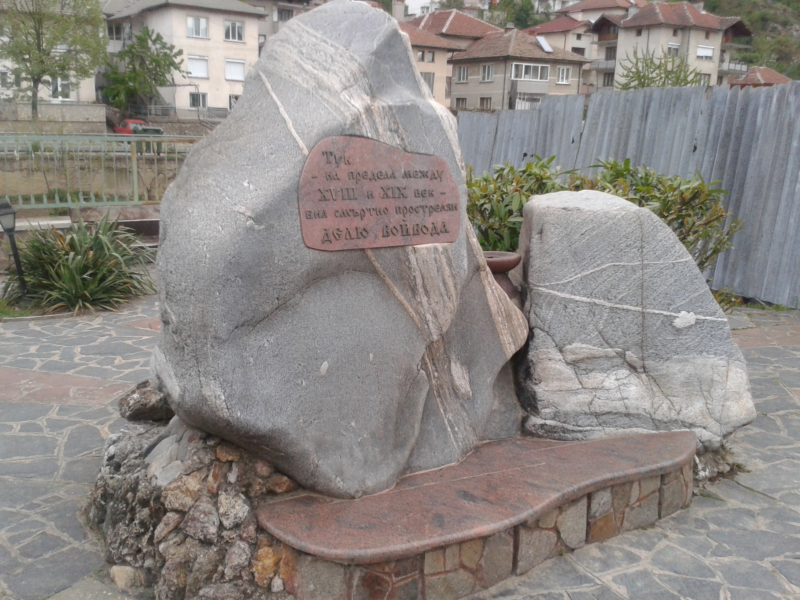 Delyo haydutin monument in Zlatograd, where he was mortally wounded.